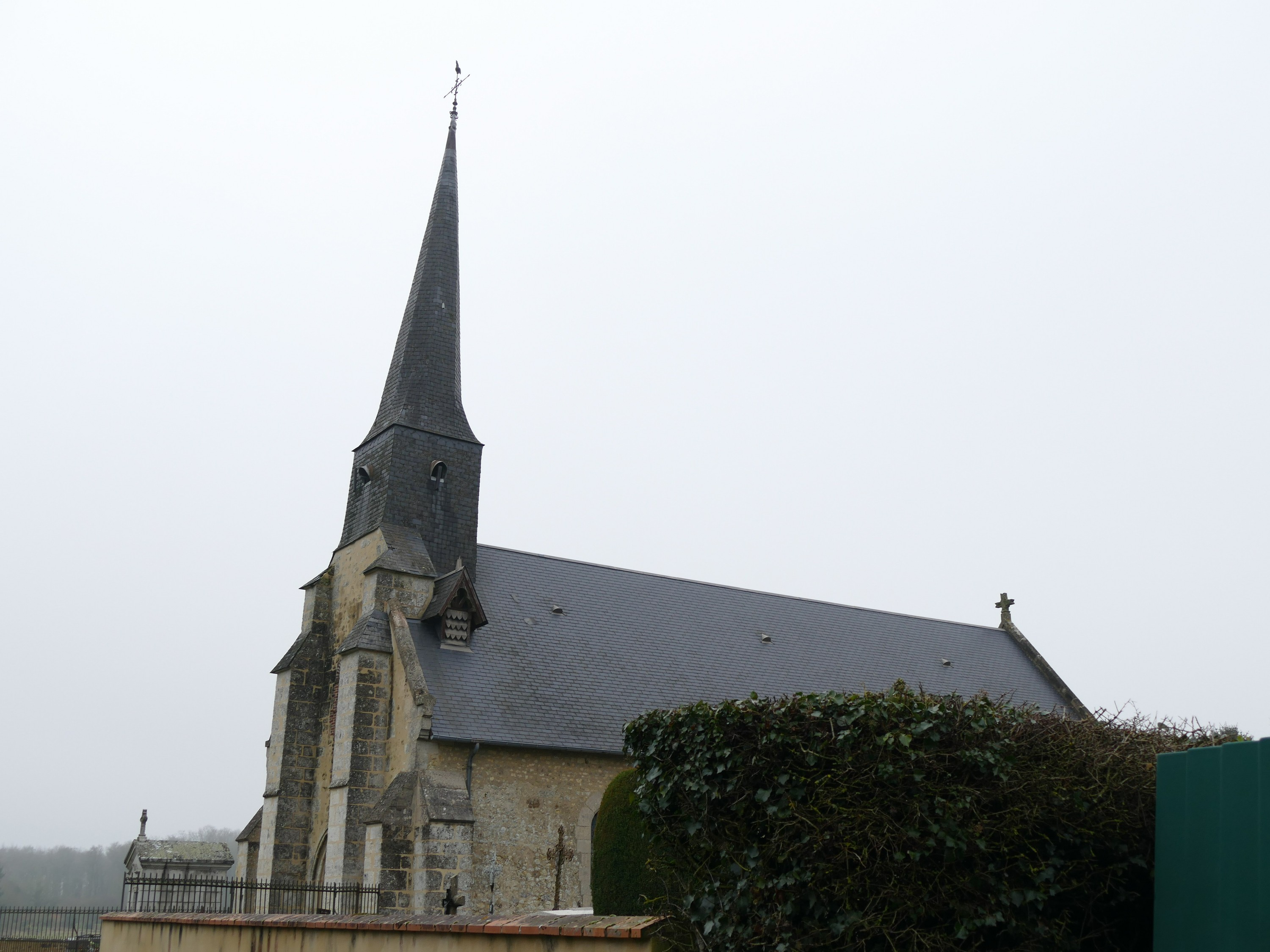 Saint-Quentin's church in Saint-Quentin-de-Blavou (Orne, Normandie, France).